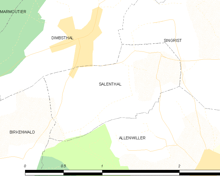 Map of French municipality